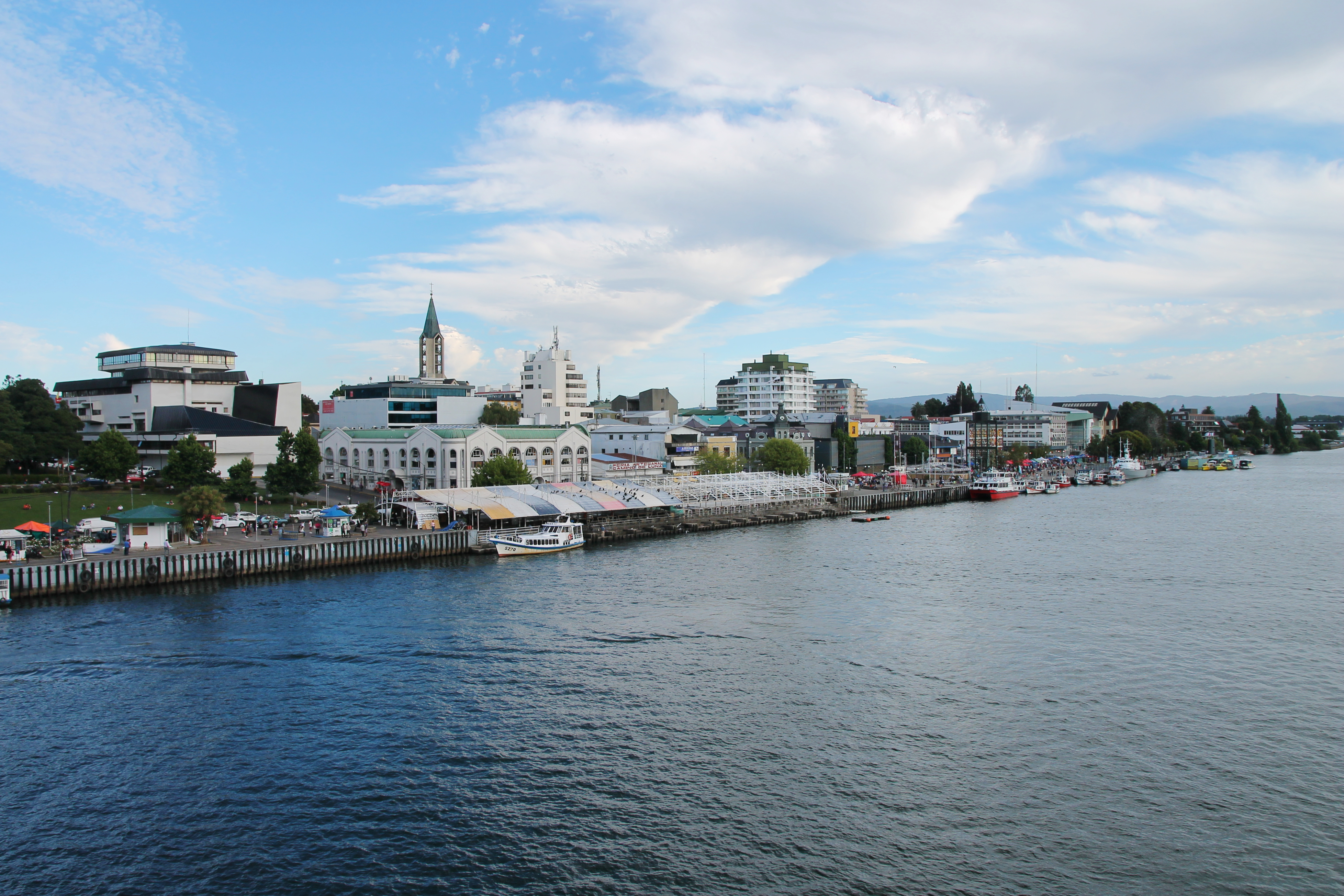 View of Valdivia from the Pedro de Valdivia Bridge